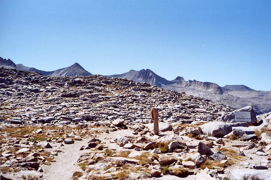 The sign marking the top of Donohue Pass, looking from the John Muir Wilderness/Inyo National Forest side toward the Yosemite side, with a few peaks of the Cathedral Range in the background including Simmons Peak.